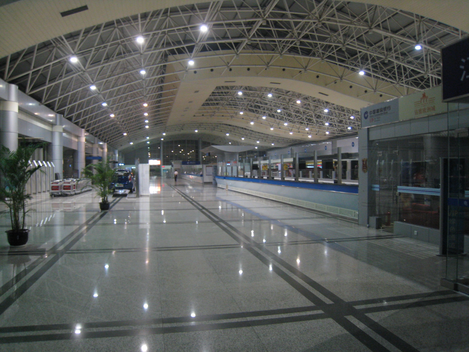 Nanchang Changbei International Airport